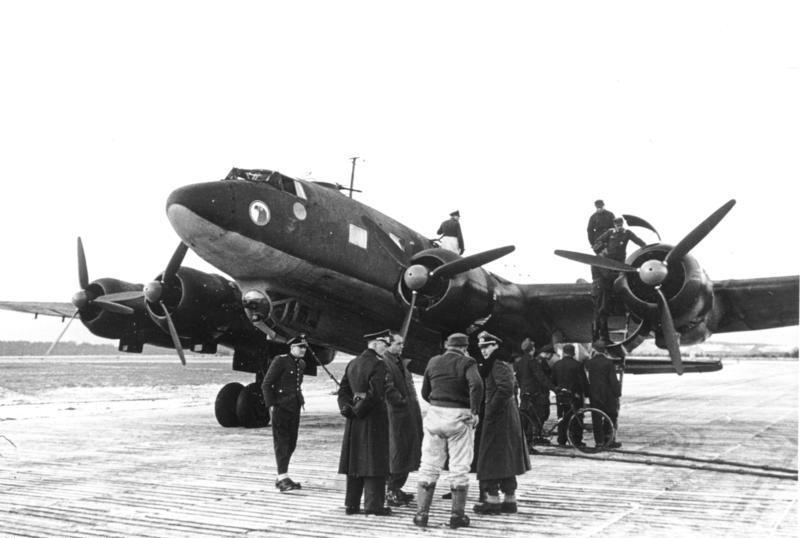 Information added by Wikimedia users.Das Foto zeigt eine Fw 200 C-3 Auslieferung ab Februar 1941.Das Foto kann also nicht von 1939 sein. (The photo shows an Fw 200 C-3 version from Feb. '41. It thus cannot be from 1939; 1939 claimed, but must be 1941 or later because the aircraft is a C-3 version)